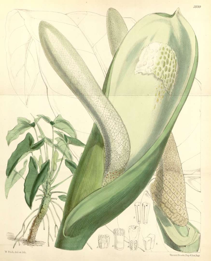 Philodendron williamsii